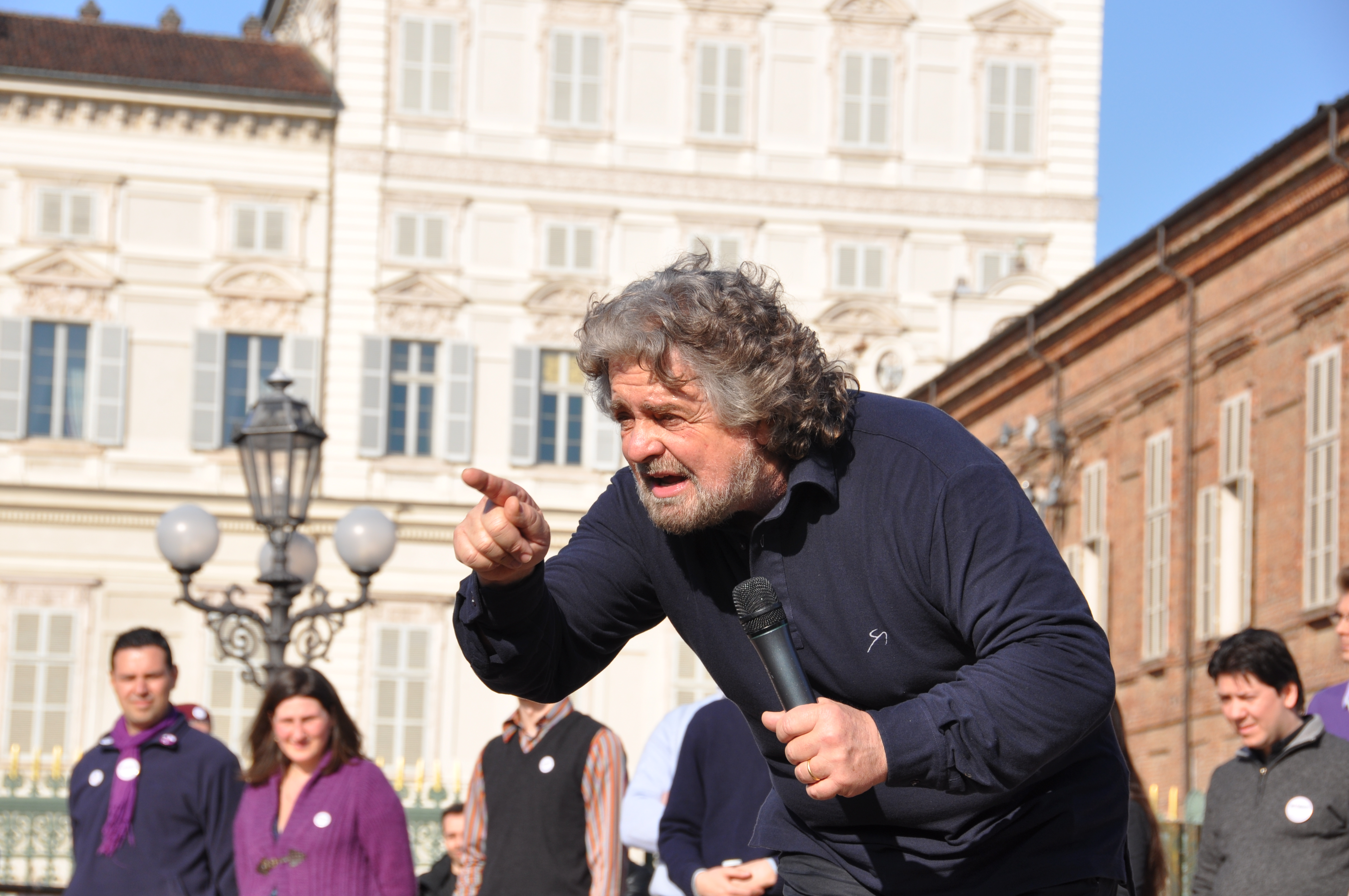 Beppe Grillo in Piazza Castello in Turin for the campaign of the Movimento 5 Stelle Piemonte, 14 March 2010.